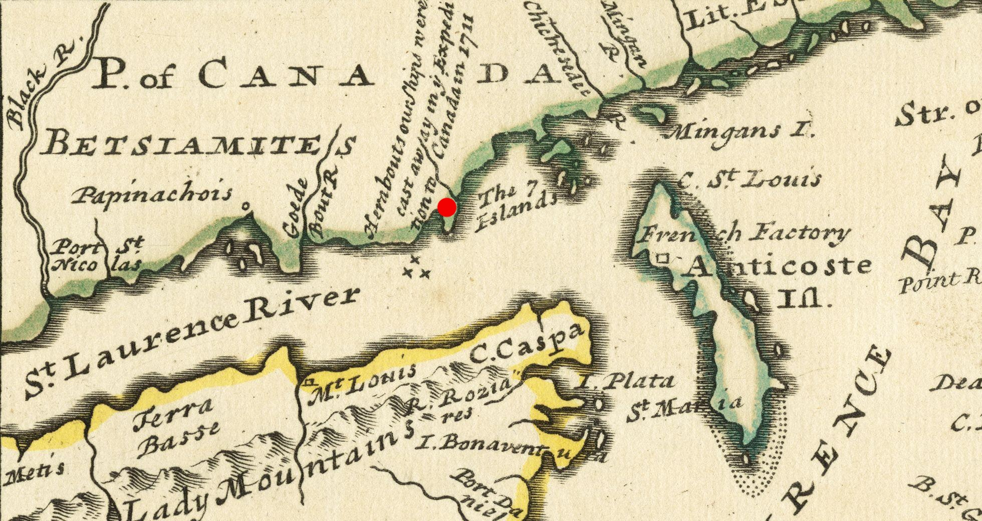 A period map marked with the site of the 1711 Quebec Expedition naval disaster.